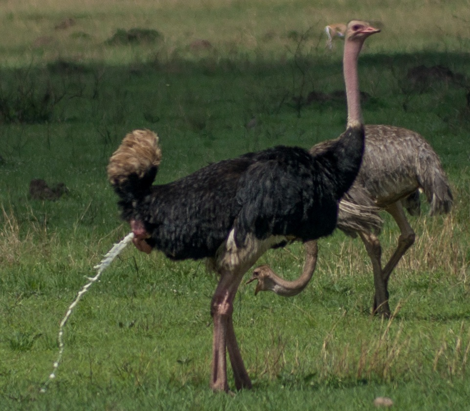 Ostrich urinating in Serengeti